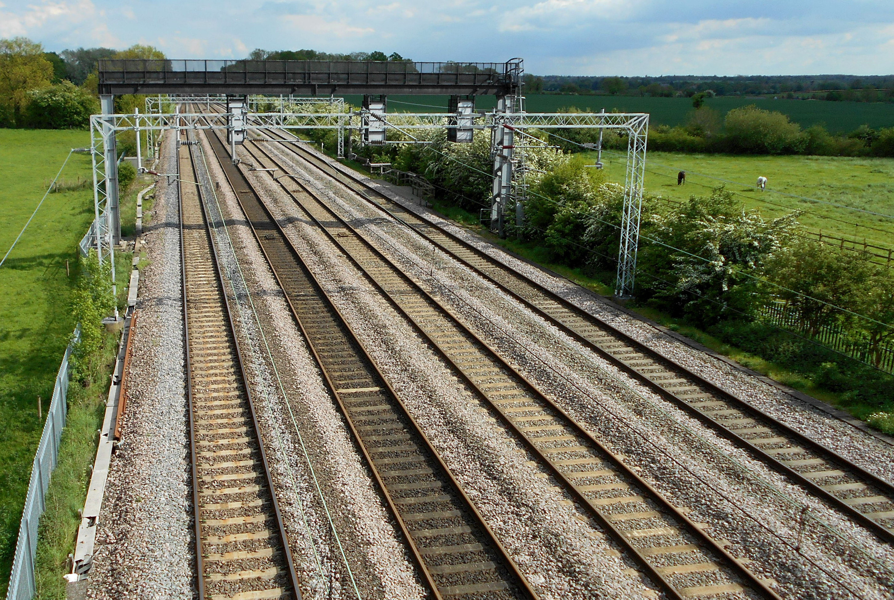 The West Coast Main Line at Cathiron in Warwickshire.